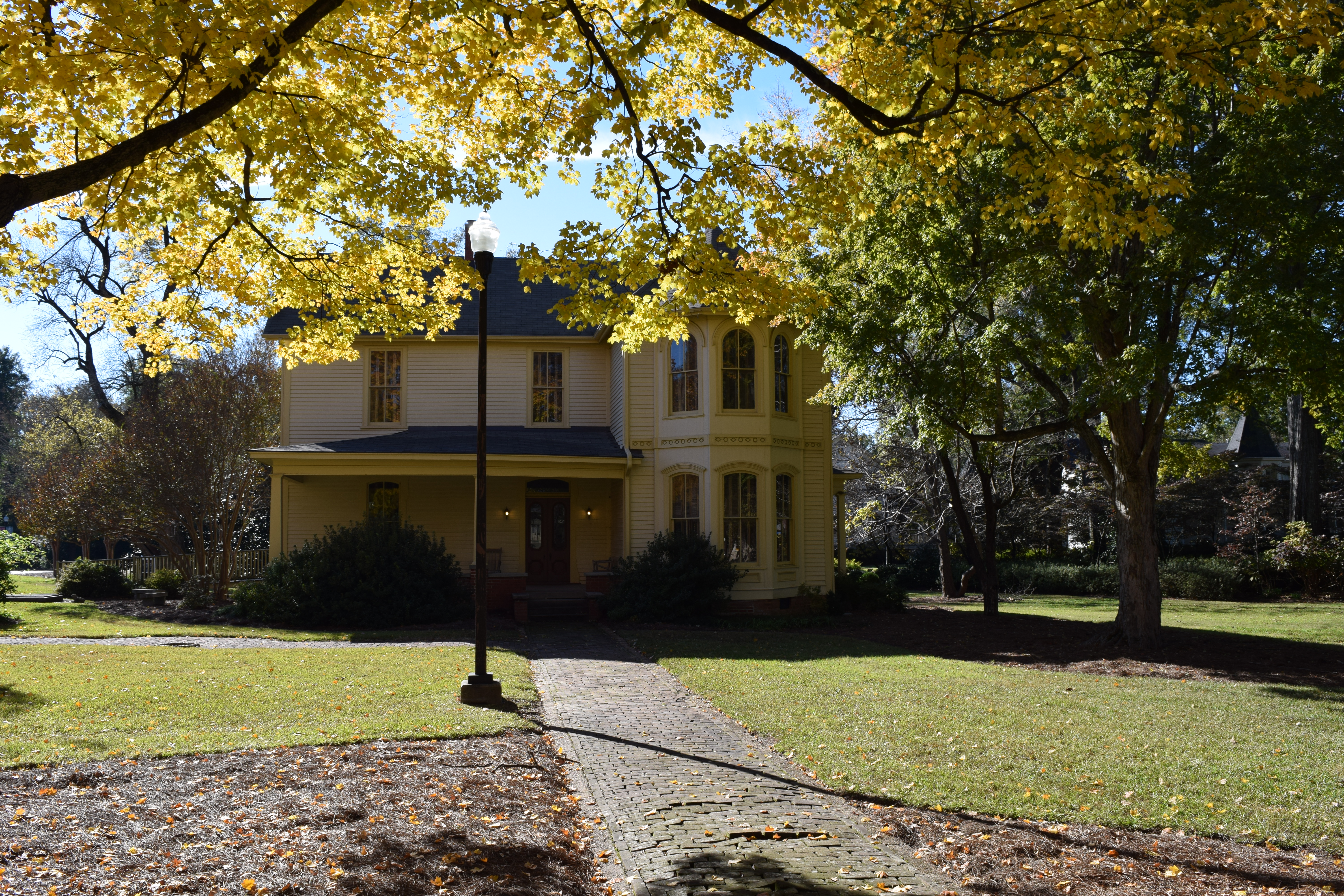 The north side (facing University Avenue) of the Walton-Young House on the University of Mississippi campus in Oxford, Mississippi